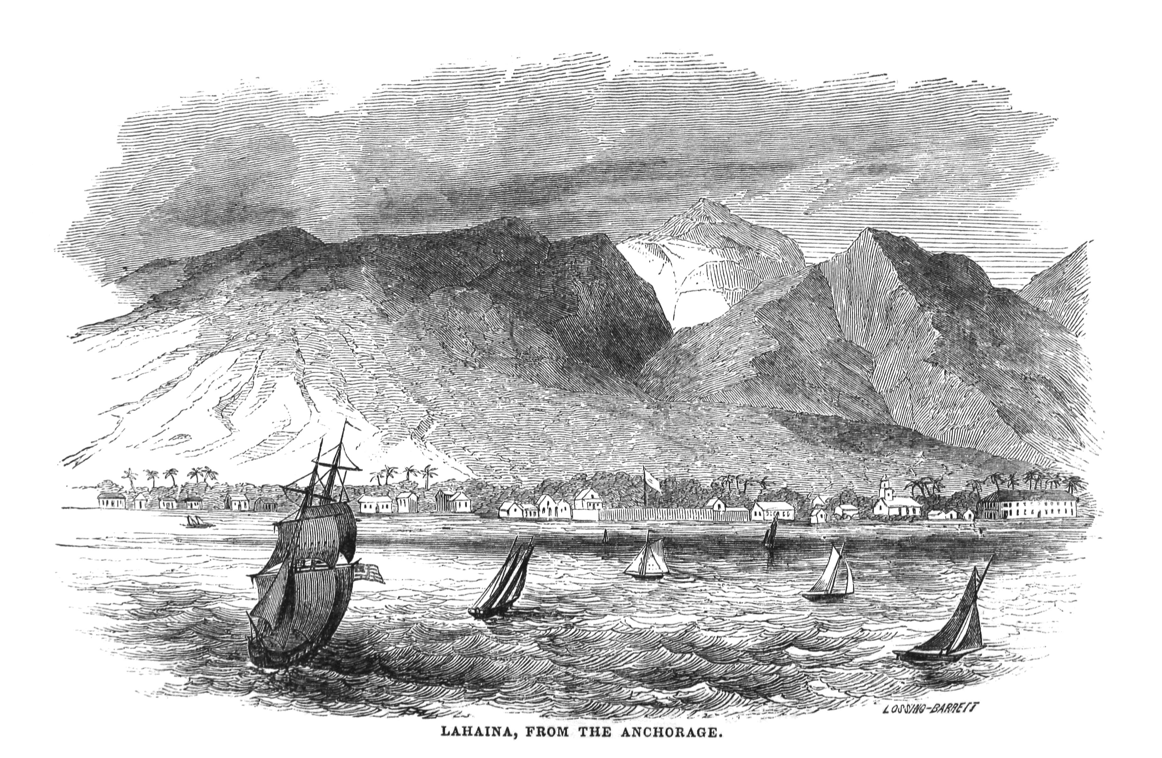 "Lahaina, from the Anchorage", wood-engraving by Benson John Lossing and William Barritt. With a view of Lahaina Fort (center) and Hale Piula (right). Lahaina Fort is in the center and Halie Piula is on the right.